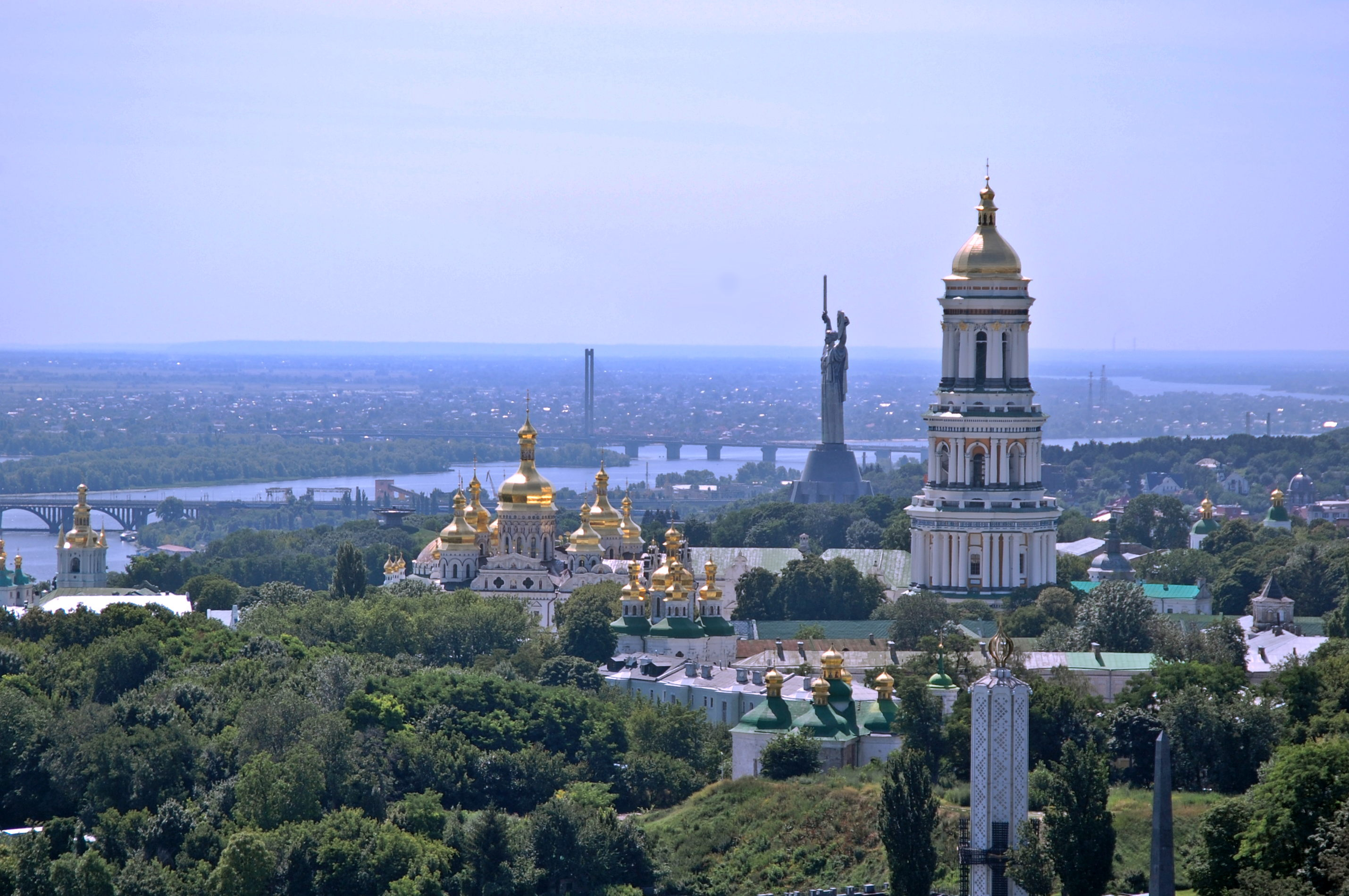 Kyiv Lavra, Ukrainian Genocide/Holodomor Monument in 1933-32 and Mother Motherland in Kyiv